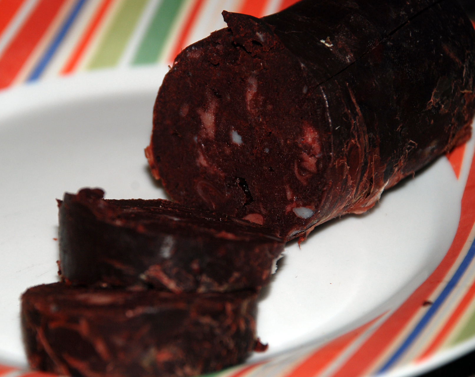 Black pudding with bread of Zamora (Castile and León).